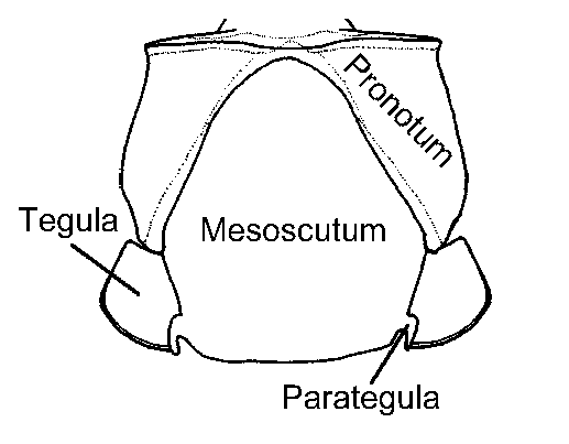 upper view of the pronotum, mesoscutum and tegulae of Cephalastor estela Garcete-Barrett, 2003